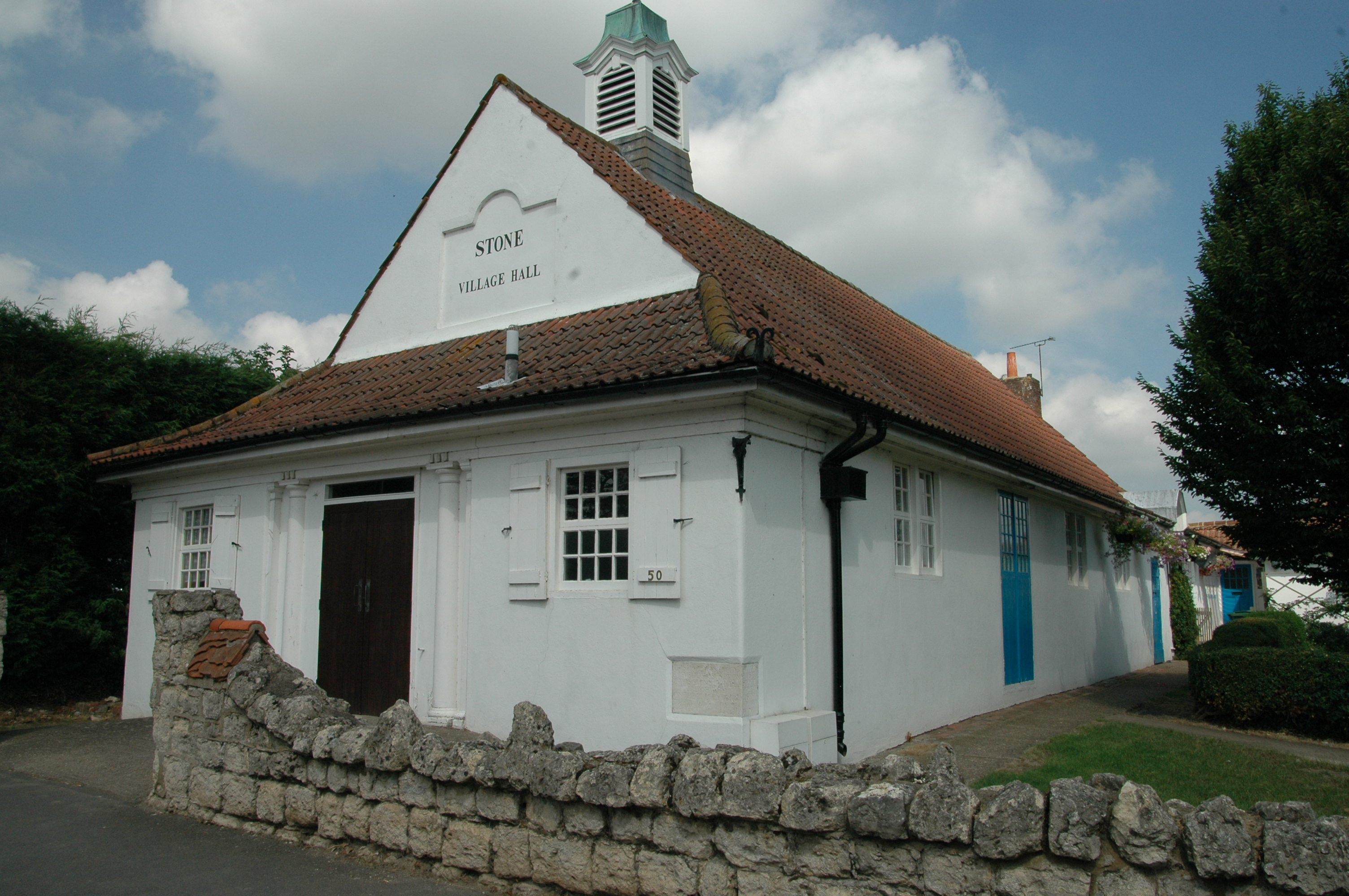 The Village Hall in Stone, Buckinghamshire